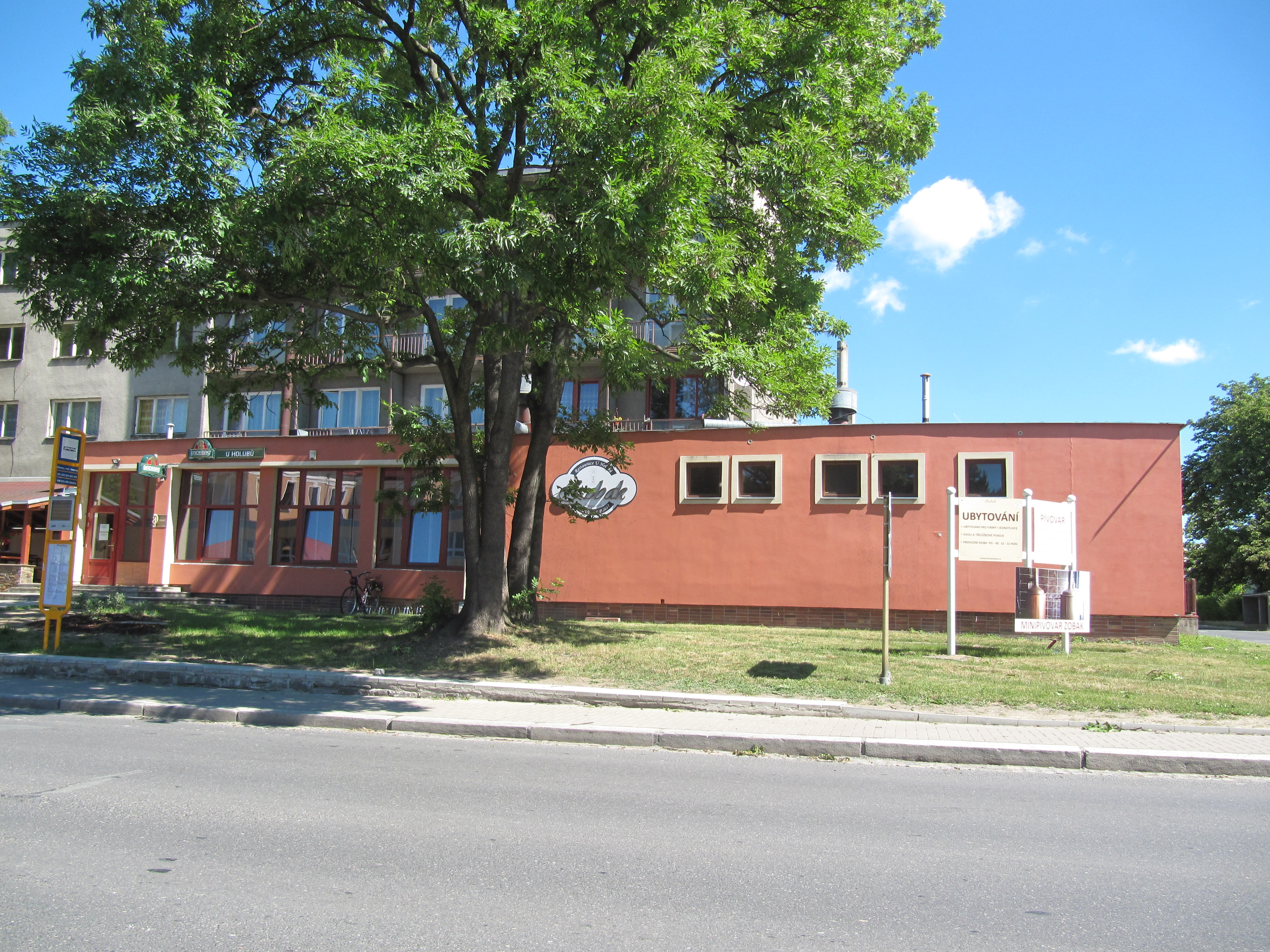 Bílovec, Nový Jičín District, Czech Republic.